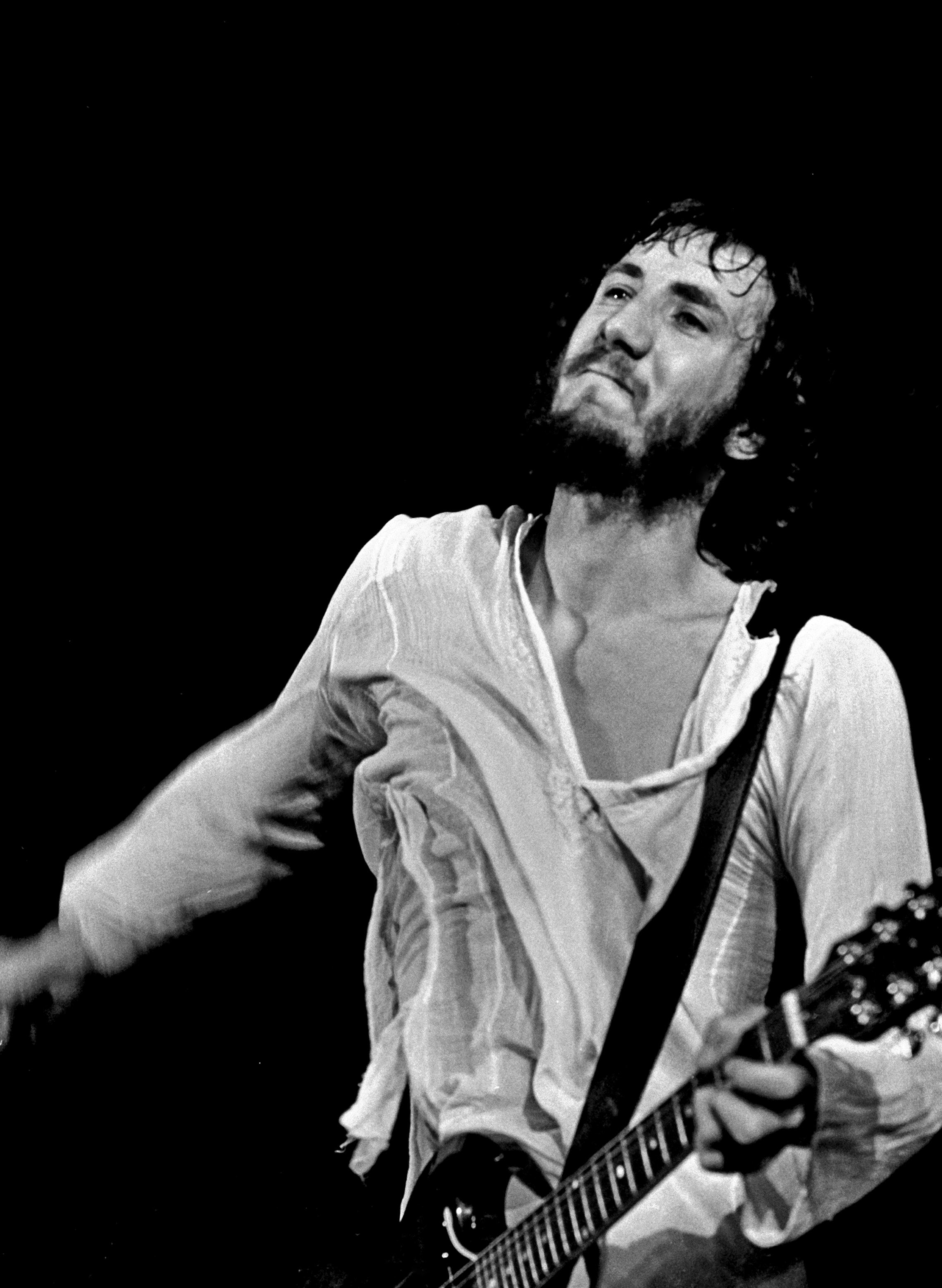 Lead guitarist Pete Townshend performing in Hamburg with The Who